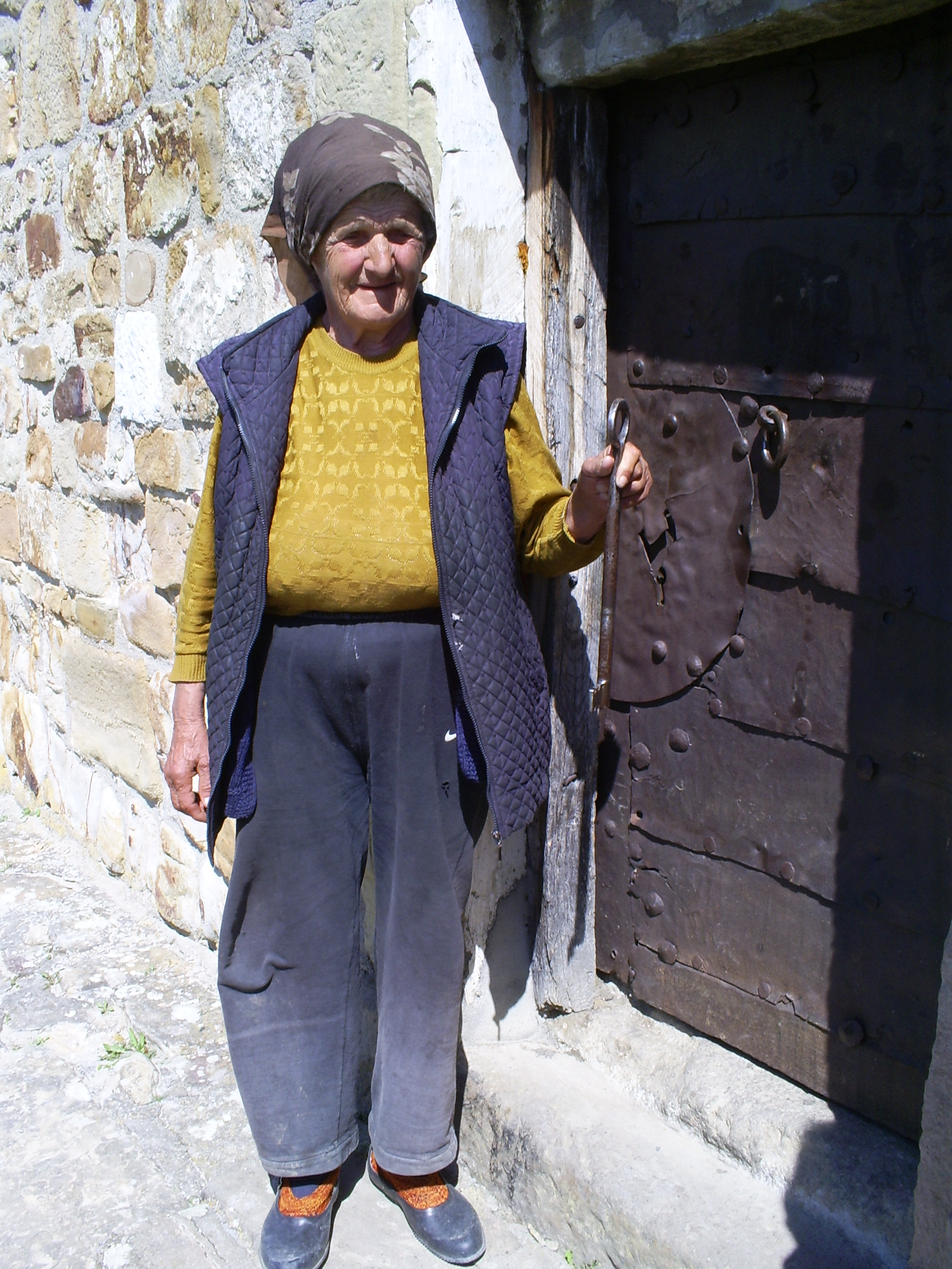 Grandma Jovanka, guardian of Petrova church